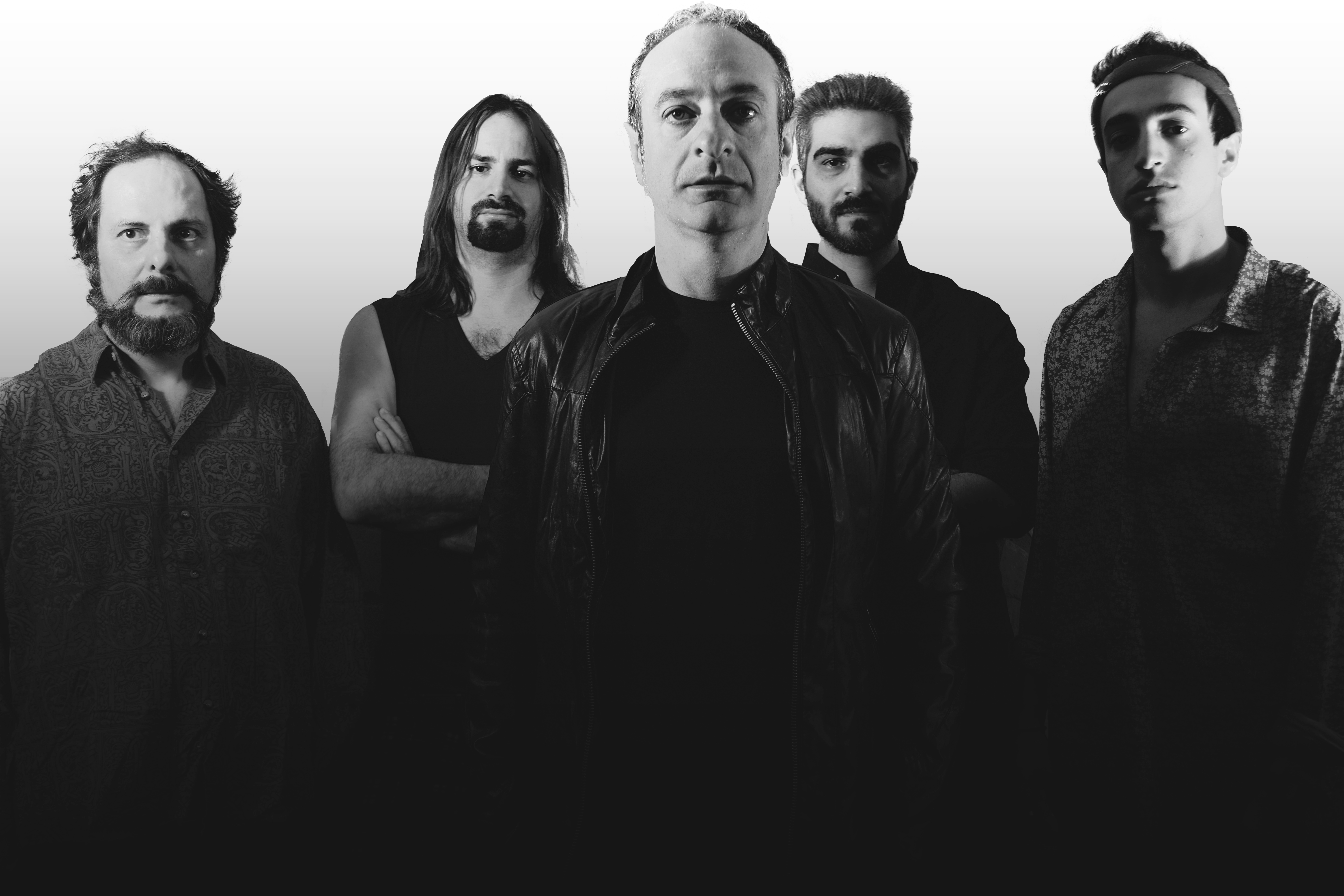 The Watch band